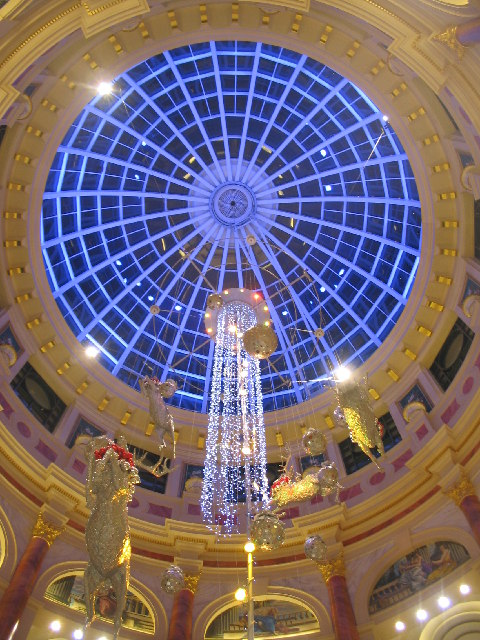 Trafford Centre. A view looking up into the main cupola of the Trafford Centre, decorated for Christmas 2005.